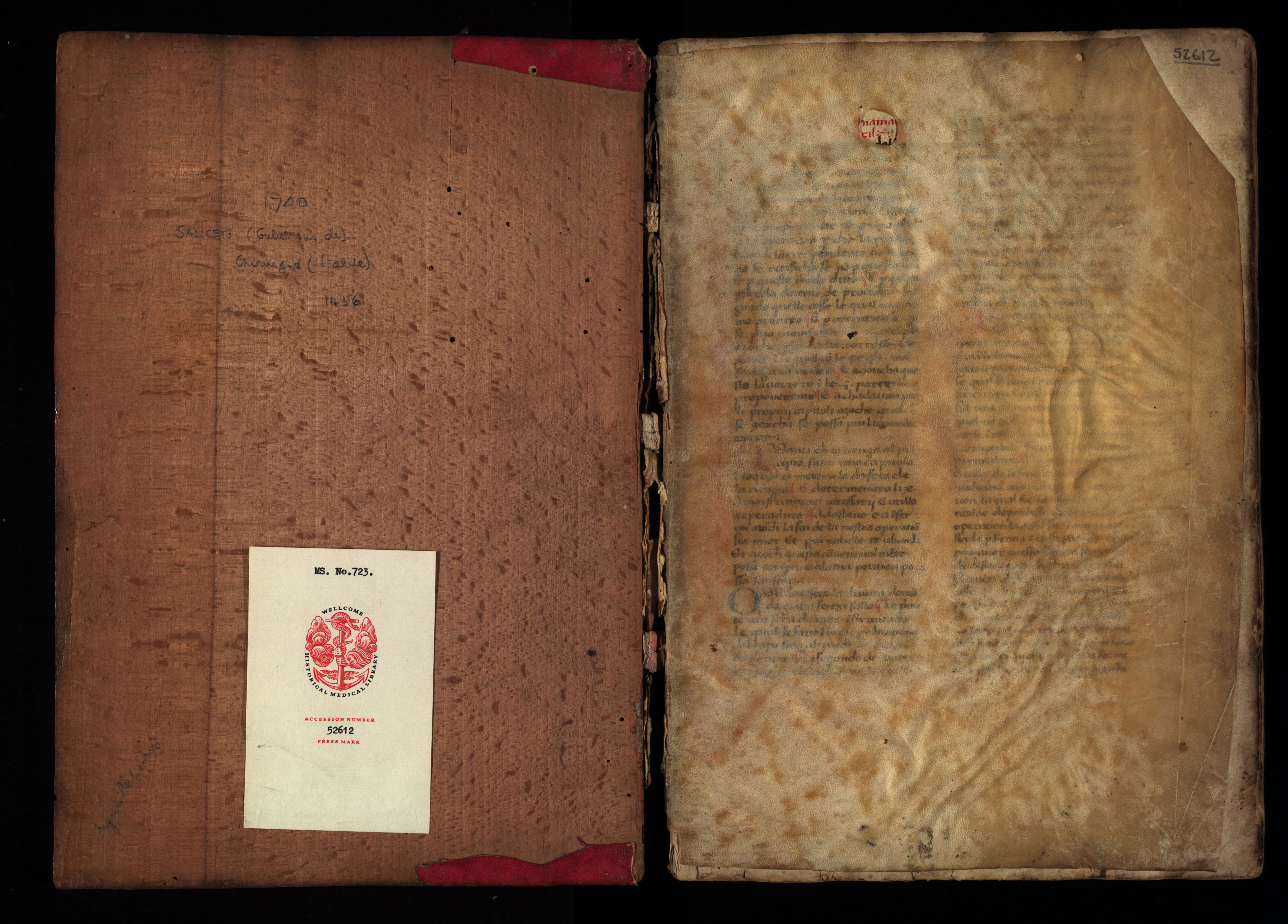 MS 723 Chirurgia. (In Italian.) Written in a clear book-hand in double coluumn, 43 lines to a column: form fol. 59 to the end written by a second scribe in a more angular hand, 36 lines to a column. Ornamental initial P with marginal decorations on first leaf, other capitals in alternate red and blue, headings and some paragraph marks in red. Fol. 1 (red) Chi comenza lo libro chiamato/Guielmo fato adi 5 auril. 1456./PRoponimeto del bel/componere lo libro de/la operation natural/... 3, col. 2 (Text beings) GEneralmente amaistramento/E queste cosse che fano mai/stro... 86, col. 2, line 5 e segondo la promission mia/abiando compido con breuita/quello che io promessi de scriuer/regratio lonipotente dio pater/et filii et spiritus sancti Amen.//Laus sit tibi christe quia liber/explicit iste.//finis. (Within pen-drawn ornament.) 86, col. 2-89 Medical receipts in Italian by several late 15th century or early 16th century hands. One on fol.86, for and embrocation [?] is by 'M. Gotofredo barbero da uenessa [Venezia?]'. Possibly, therefore, produced in Venice. Archives & Manuscripts